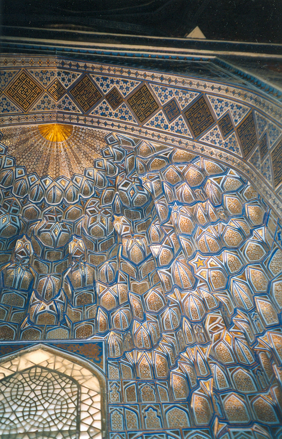 Decorations inside Guri Amir, Samarkand, Uzbekistan.